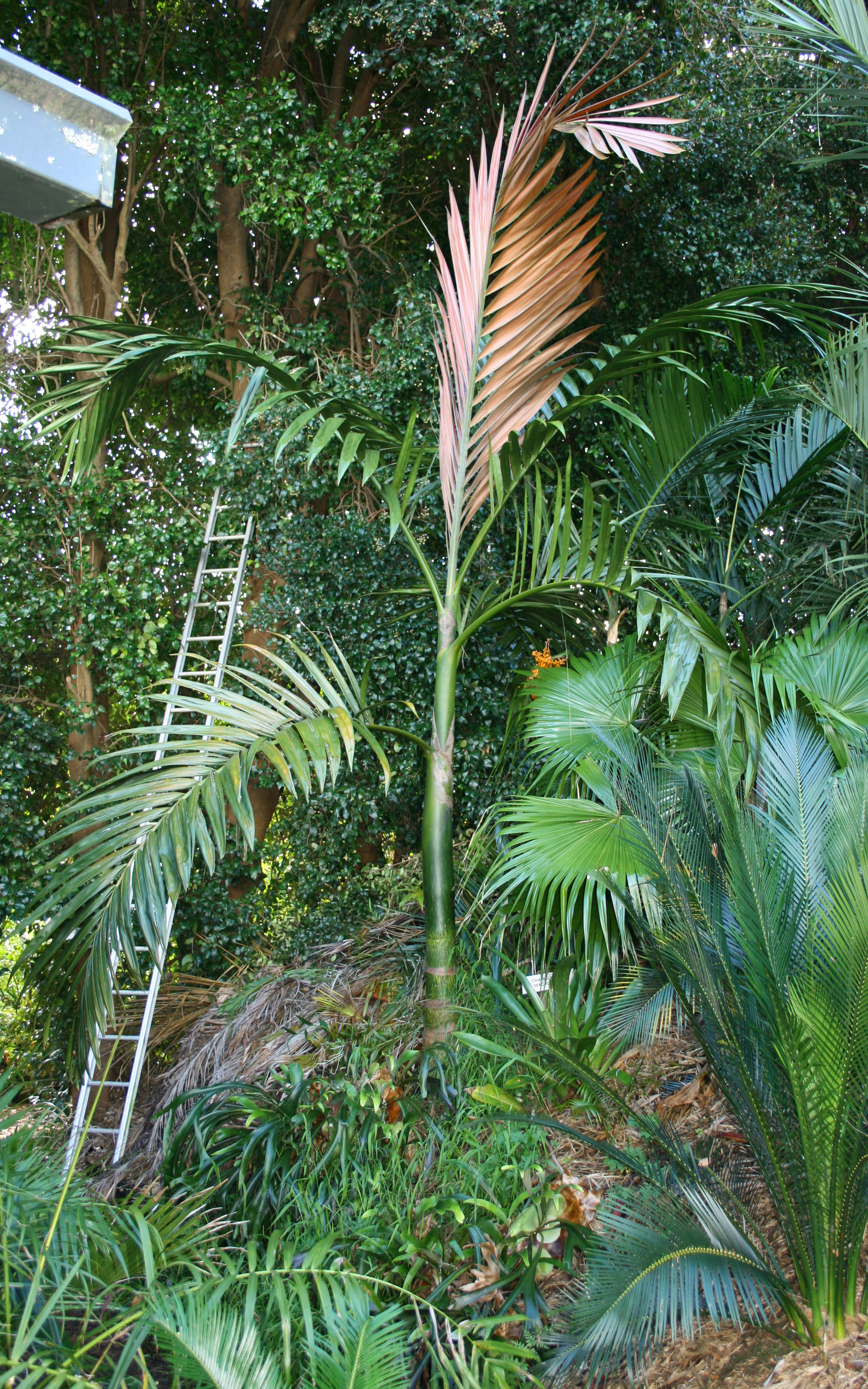 Chambeyronia macrocarpa, a palm native to New Caledonia, growing in cultivation at Kerikeri, North Island, New Zealand.